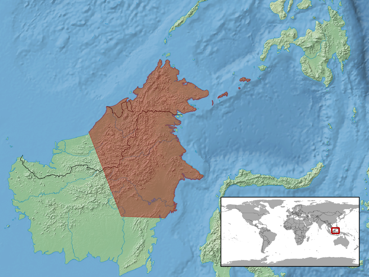 geographic distribution of Calamaria suluensis (Native: Indonesia; Malaysia; Philippines)